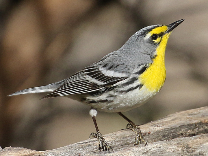 Grace's Warbler Setophaga graciae, Pinal Peak, Arizona, USA